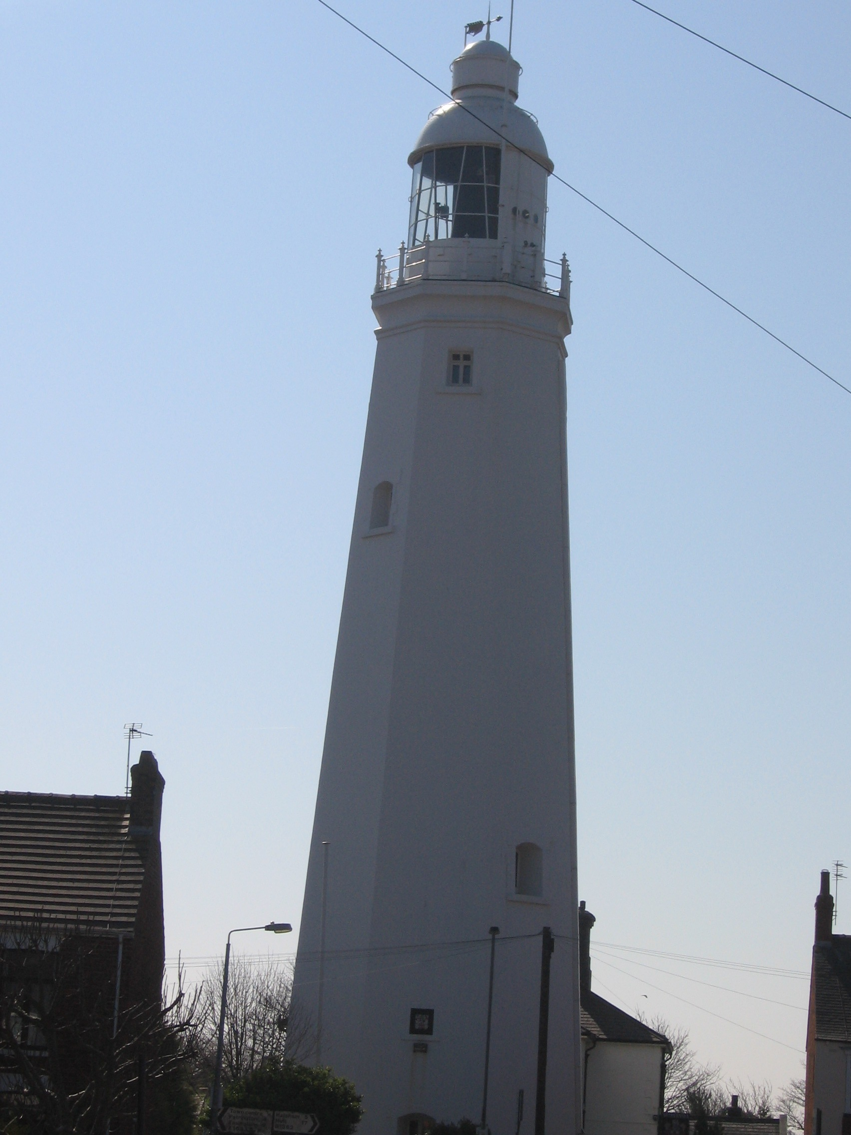 Withernsea Lighthouse, Withernsea, East Riding of Yorkshire, England..Photo taken by me on 07 April 2007.